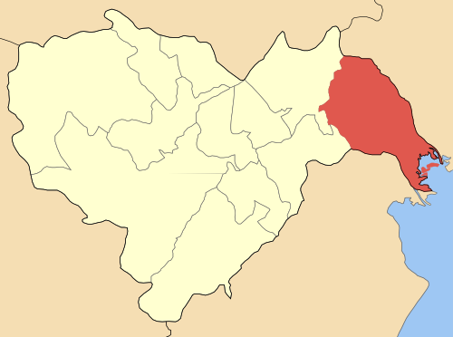 Locator map of Plateos municipality (Δήμος Πλατέος) at Imathias perfecture, Greece.